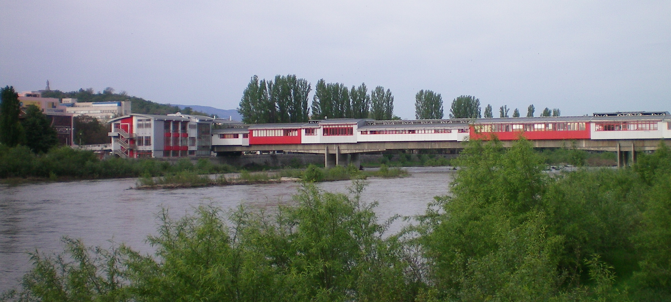 Plovdiv, Pedestrian Bridge